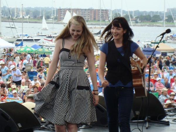 Amanda Walther and Sheila Carabine moments after singing "Levi Blues" at the Newport Folk Festival in 2009